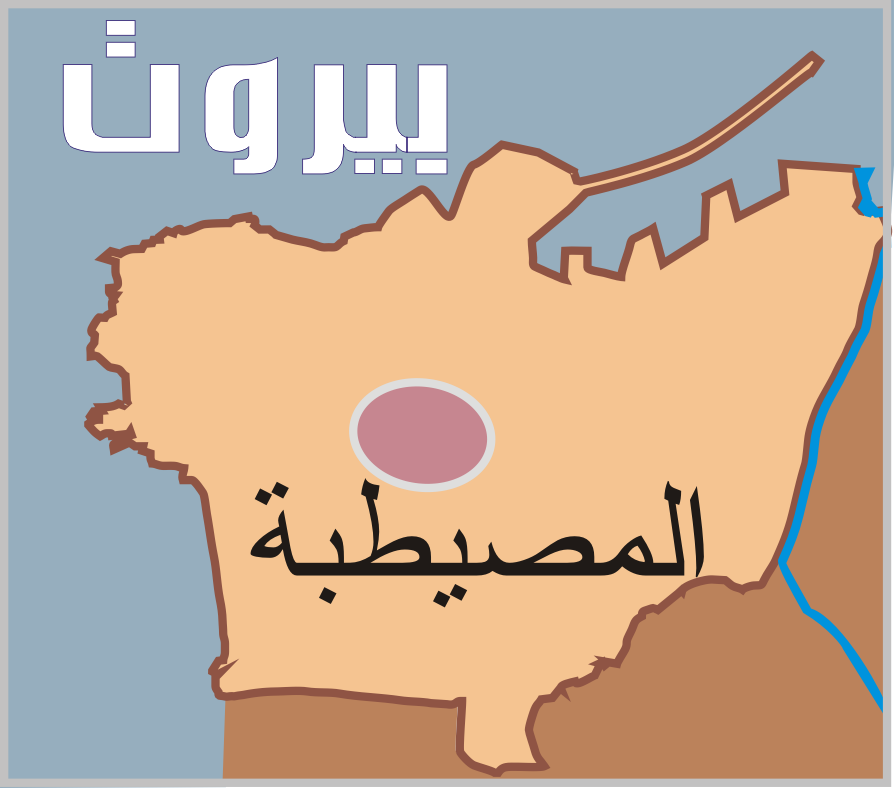 Map of Beirut خريطة بيروت